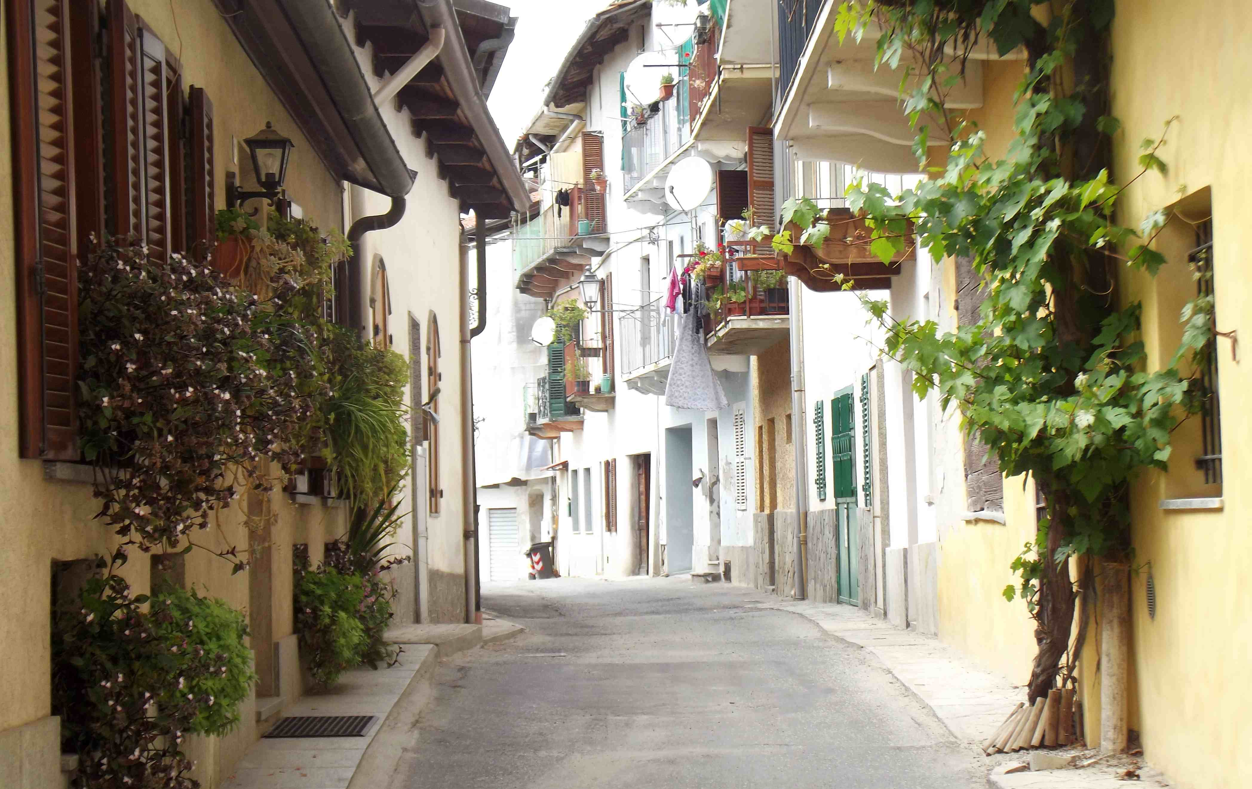 Sciolze (TO, Italy): via Umberto primo